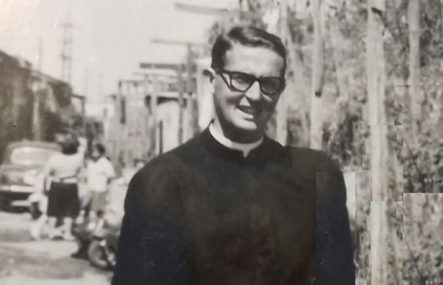 don Nicola Palmisano (Taurisano 1940 - Rome 1993) carried out pastoral action and gave material assistance to the barracks of the Fosso di Sant'Agnese in Rome in the 1960s. Digitally reconstructed image.